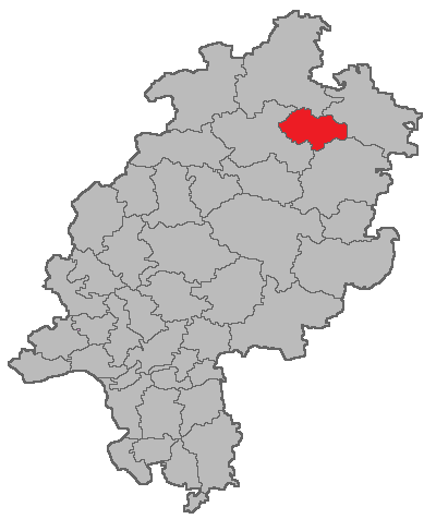 Map of the district court Melsungen in Hesse